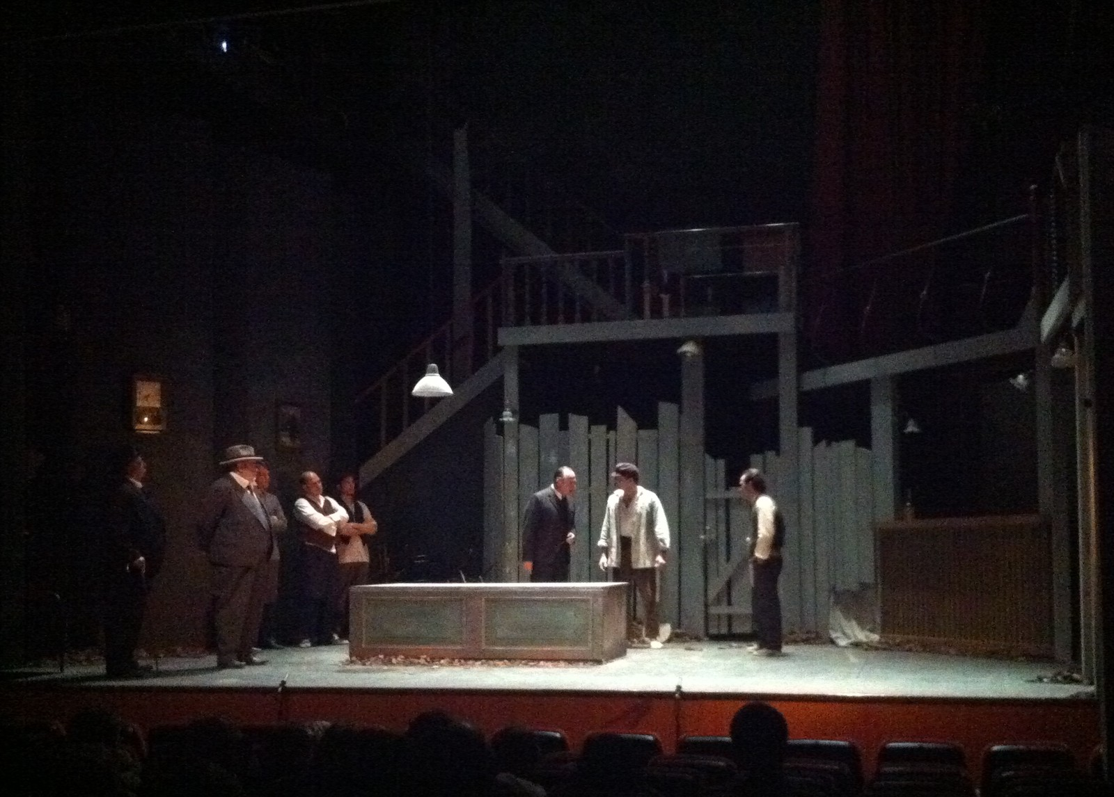 Representation of Ferran de Pol's work: Miralls tèrbols at Teatre principal of Arenys de Mar (febr 2012) by Jordi Pons Ribot.